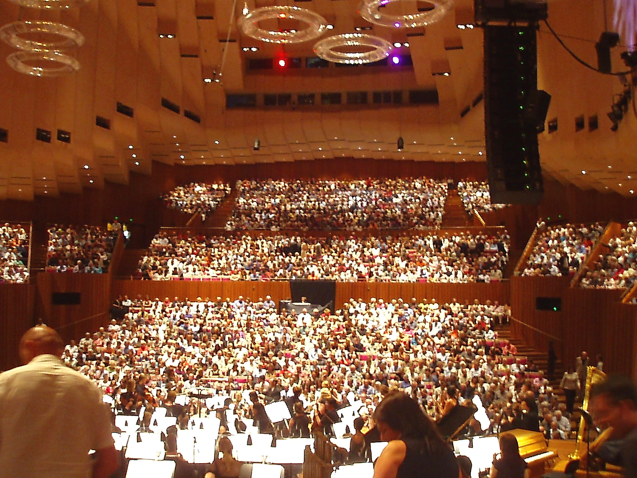 Main concert hall of the Sydney opera house